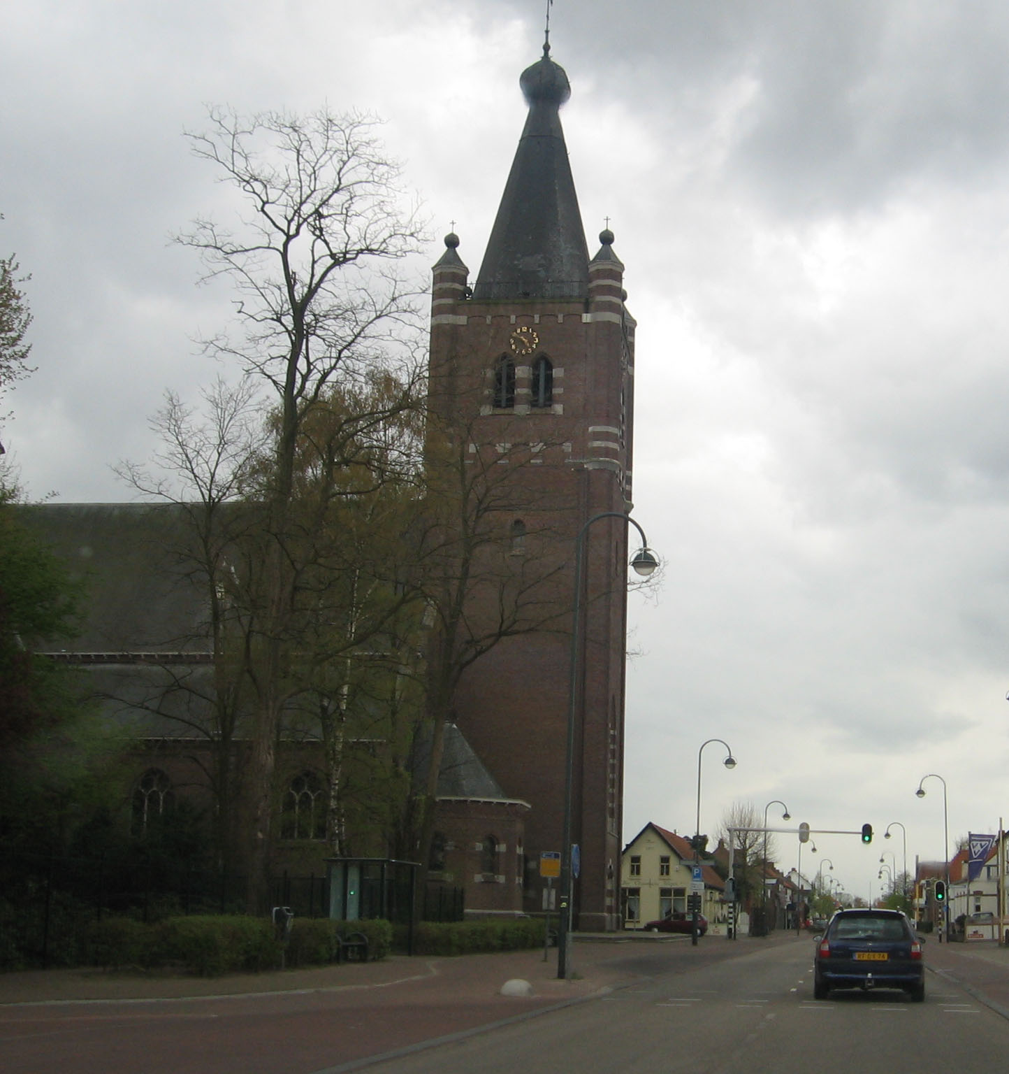 Chaam (Netherlands), church, april 2006